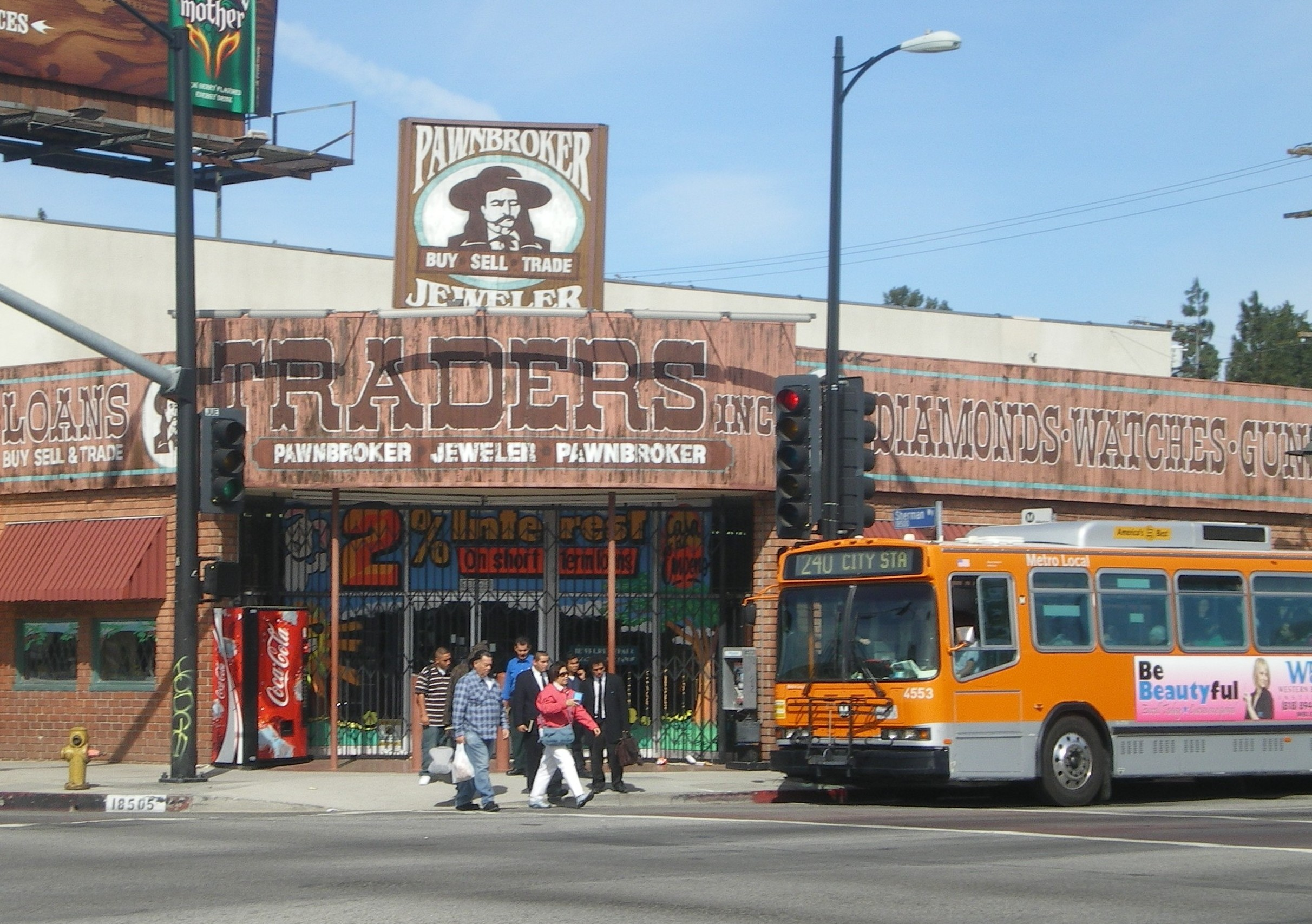 Pawn Shop at Sherman Way & Reseda Boulevard, in central Reseda. • Located in the western San Fernando Valley, Los Angeles, California.